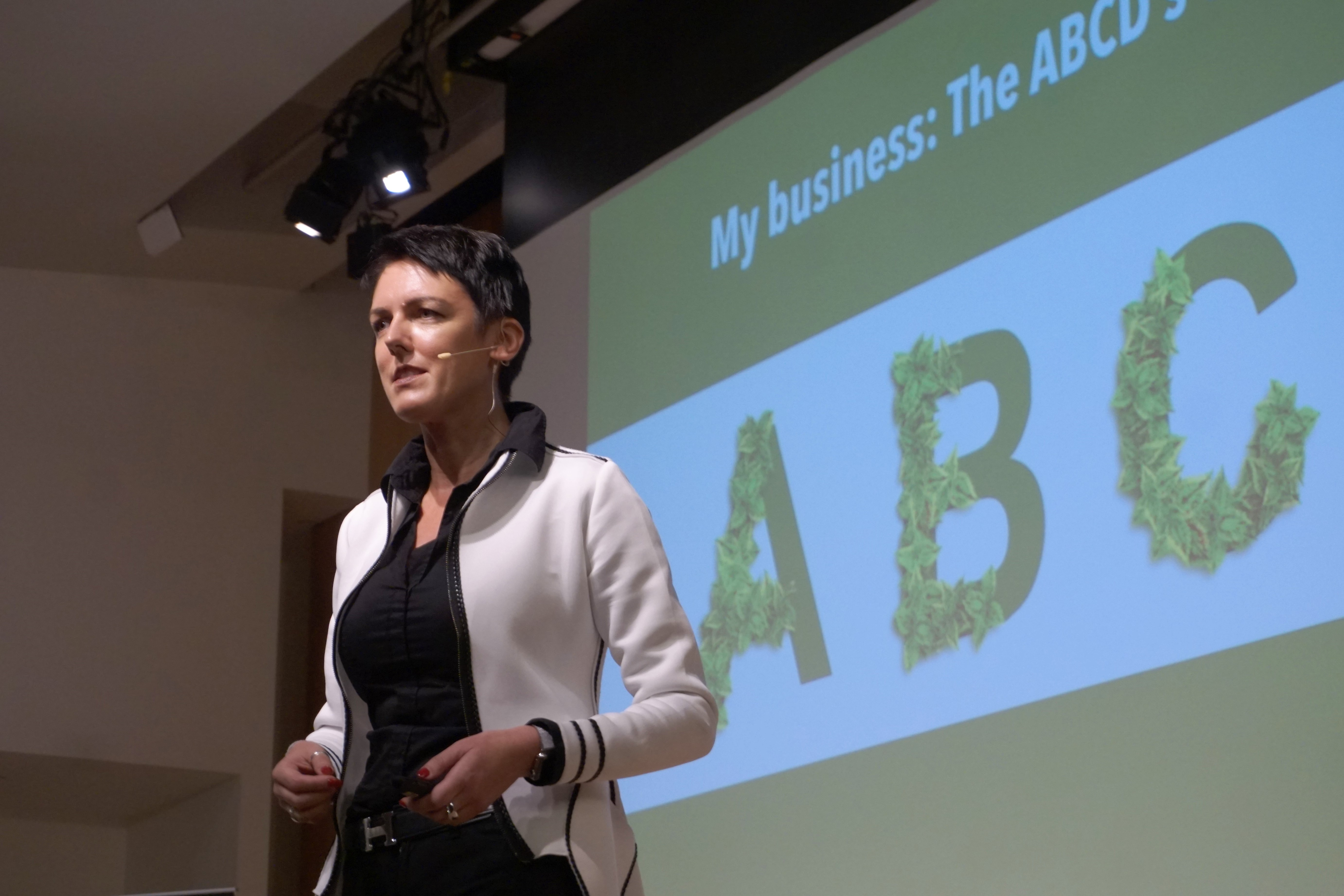 Austrian professional Speaker, Consultant and Author.Sylvie di Giusto speaking at the Smart Hustle Conference in November, 2017